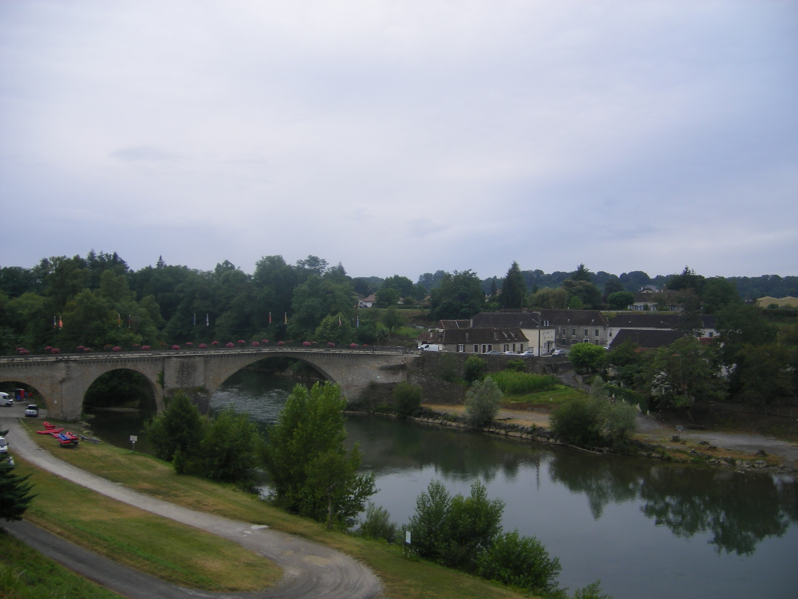 The Gave at Navarrenx